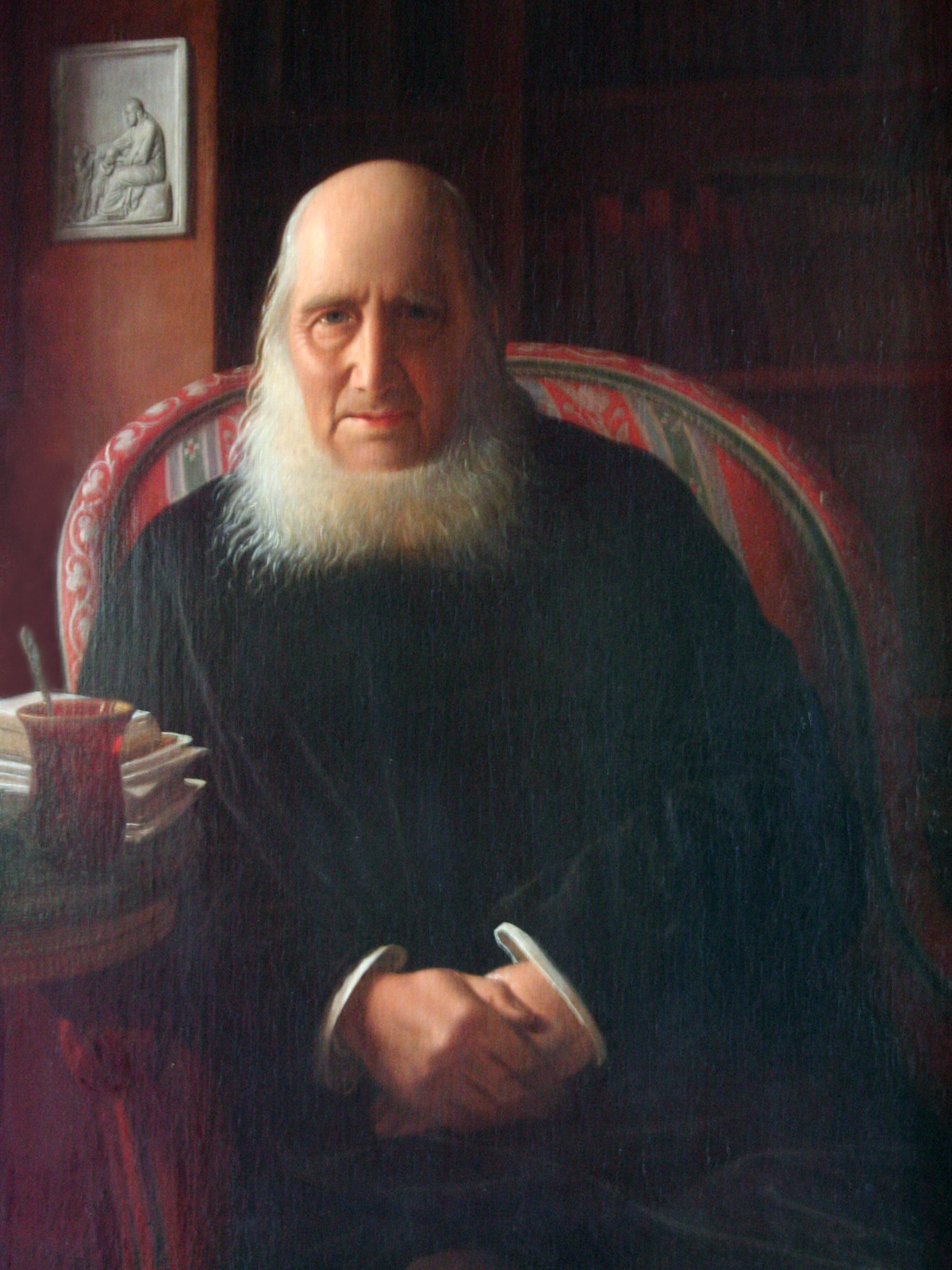 Nikolaj Frederik Severin Grundtvig by Constantin Hansen.